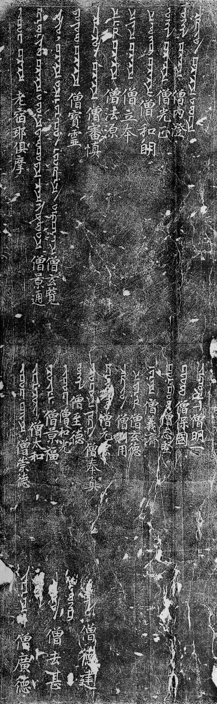 Syriac text in the Nestorian Stele.